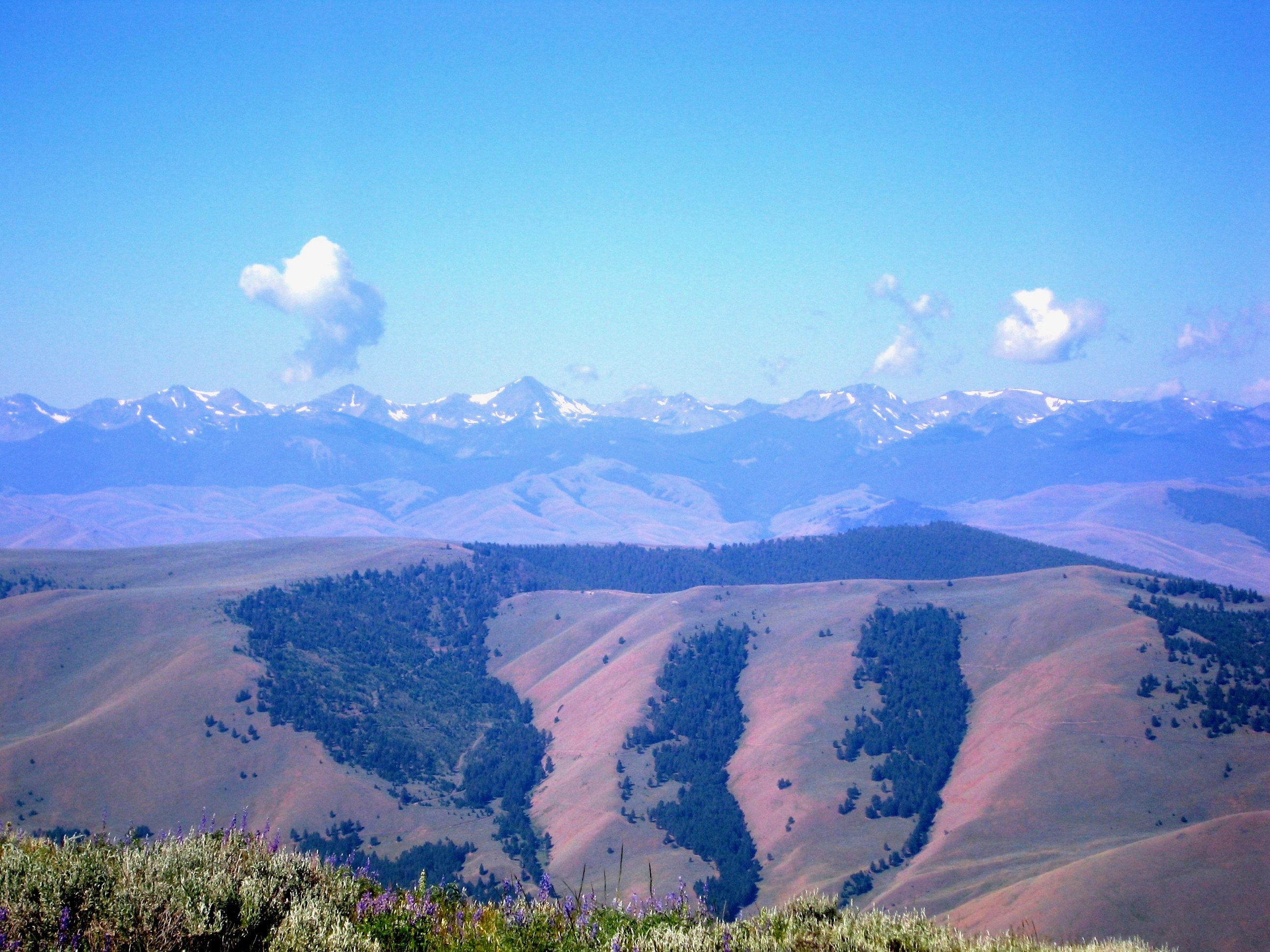 hiking trail over the Continental Divide at Lemhi Pass